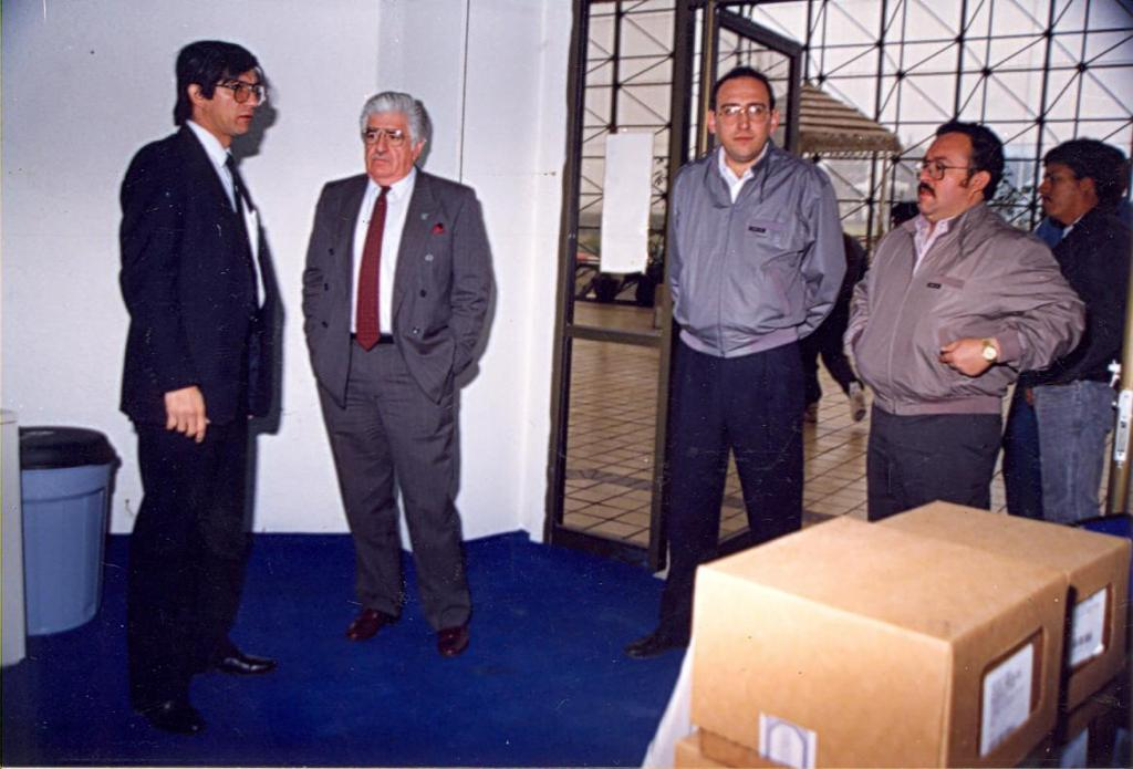 Función pública